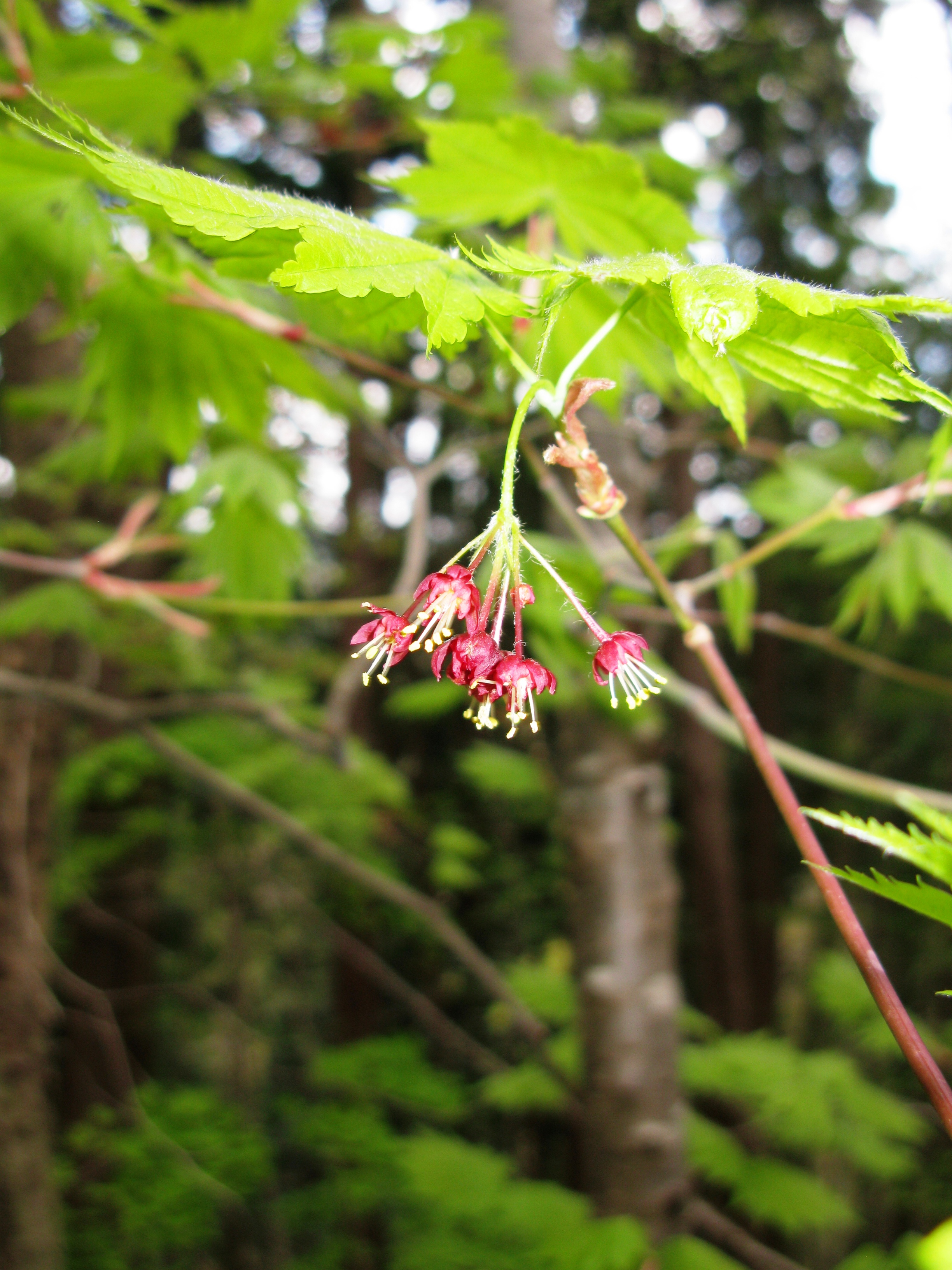 Acer japonicum, Aizu area, Fukushima pref., Japan